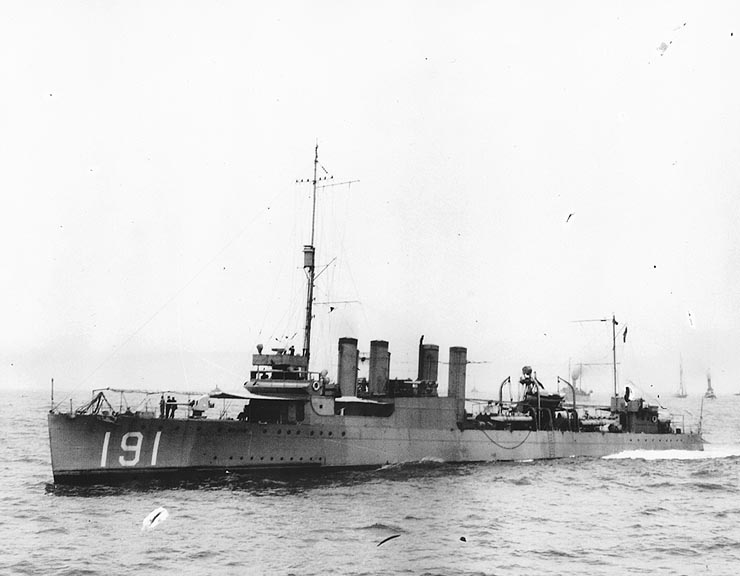 The U.S. Navy destroyer USS Mason (DD-191) underway off the U.S. East Coast, circa 1920-1922.